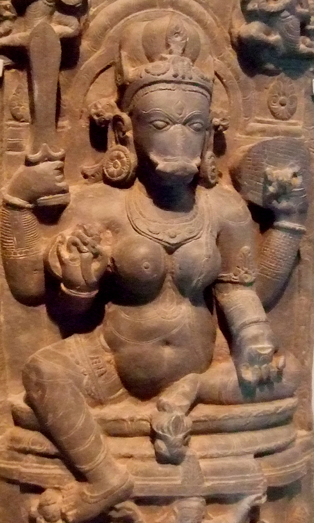 Varahi: Shakti of the Hindu deity vishnu in the form of a boar (Varaha) 1000-1100 Ce India eastern Bihar state Chlorite. Photographed at the Asian Art Museum of San Francisco in California.